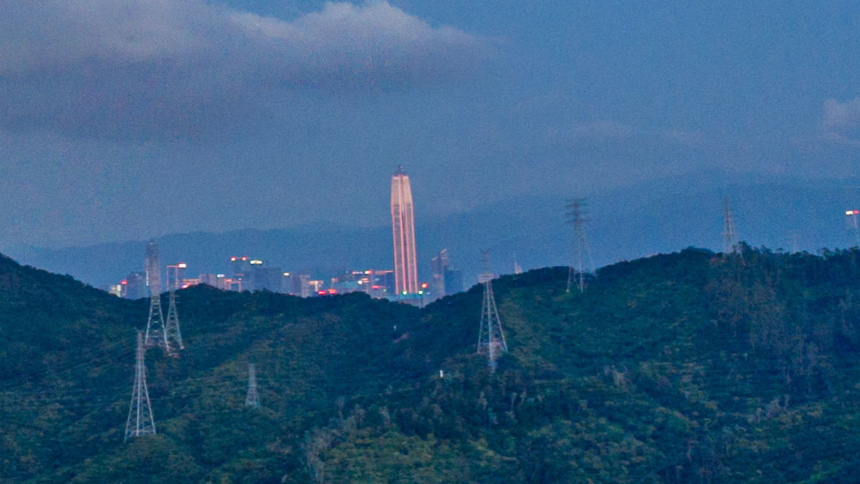 View Ping An Finance Centre From Tanglang, Nanshan District